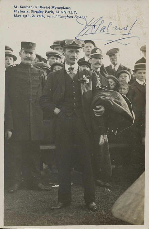 Pioneer aviator M. Salmet, who flew in the Bleriot monoplane at Stradey Park, Llanelli, 1912